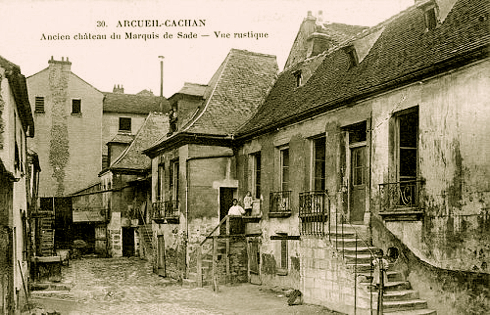 Maison d'Arcueil where Marquis de Sade met Rose Keller on Easter Sunday April 3, 1768